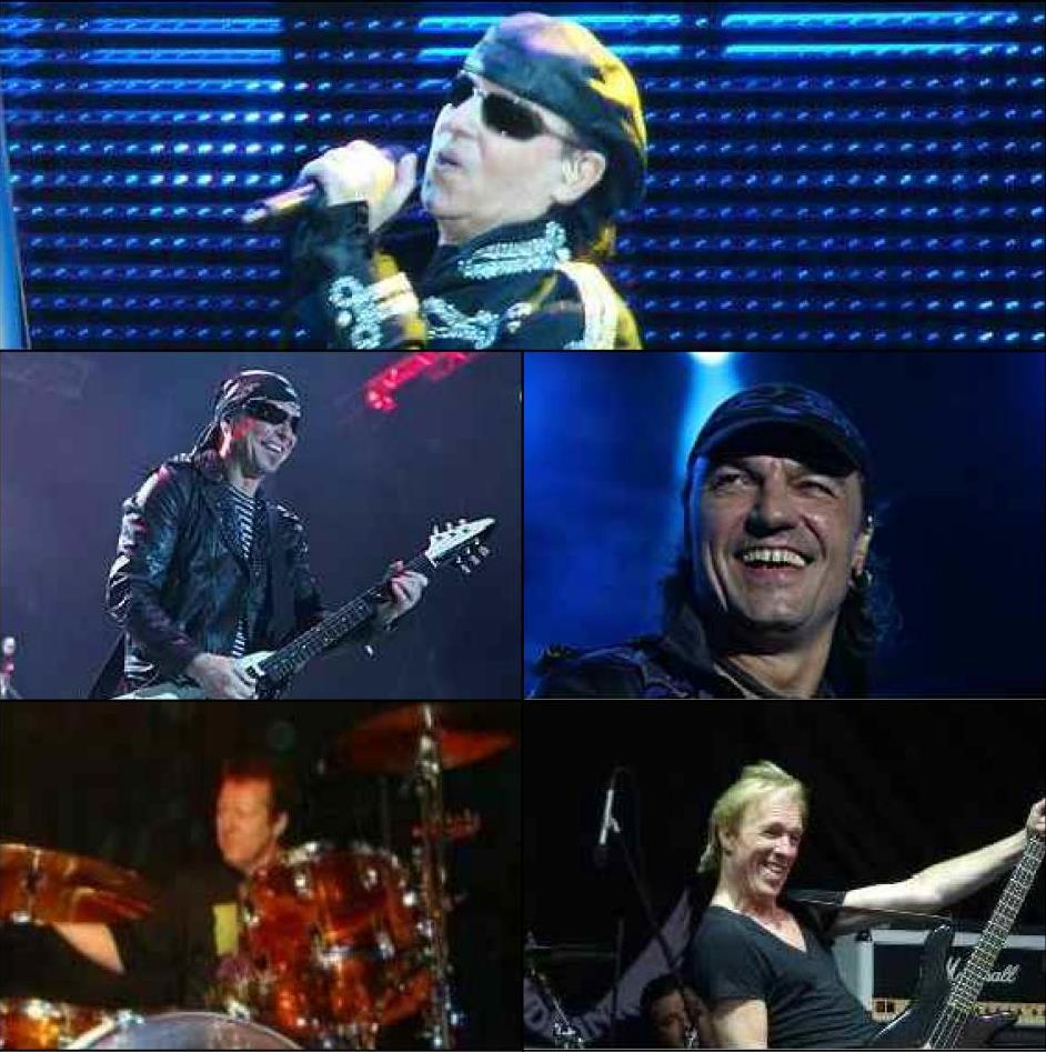 Klaus Maine, Rudolf Schenker, Matthias Jabs, Herman Rarebell, Francis Buchholz of Scorpions. A crop/montage derived from images with Creative Commons licenses on Wikimedia Commons.